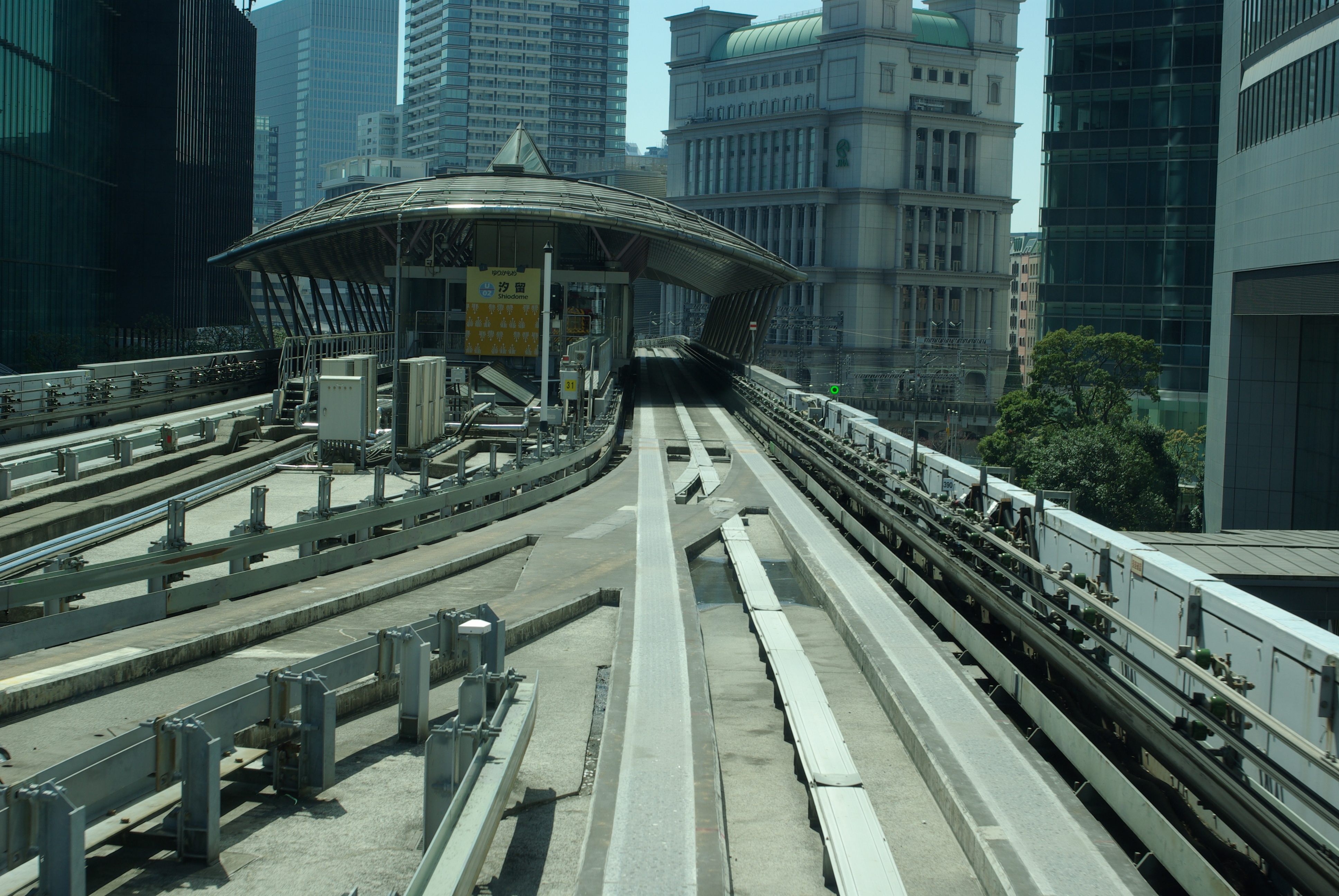 Tokyo Shiodome station tracks 2019-04